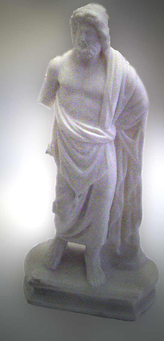 Marble statue of Asclepios; Roman period; Museum of Anatolian Civilizations; Ankara, Turkey